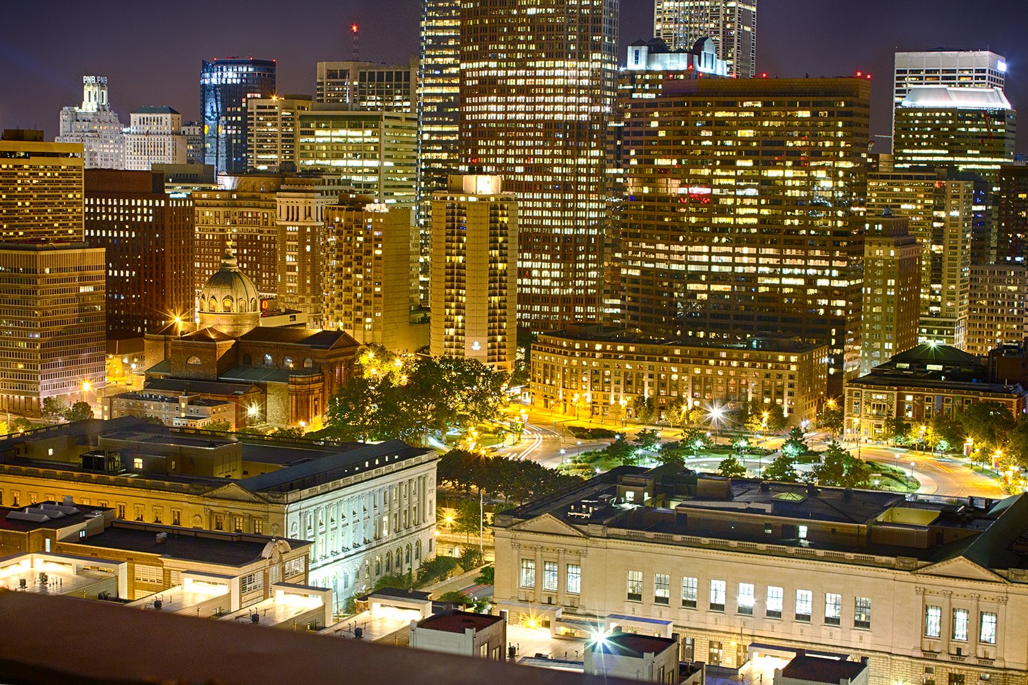 The Cathedral Basilica of Saints Pete and Paul and Logan Circle at night. This is an HDR Composite image taken from the 2001 Hamilton St (City View Condominium tower).